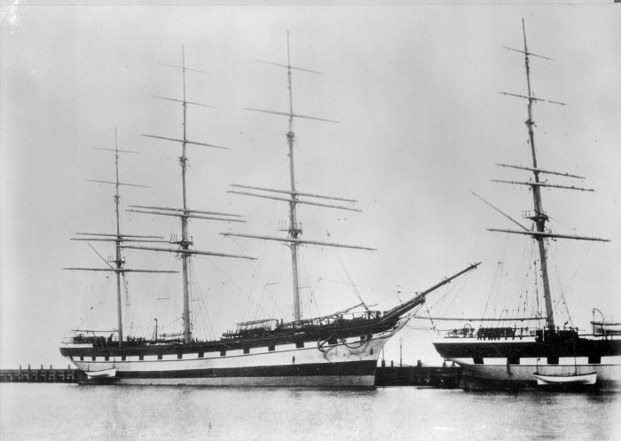 Creator unknown. Black and white image of the sailing ships Loch Lomond and Loch Katrine (poop and stern) at Geelong, Australia in 1887. National Library of New Zealand / Te Puna Mātauranga o Aotearoa. Part of the Australian images in Timeframes trail. Image number: 1/2-008541.